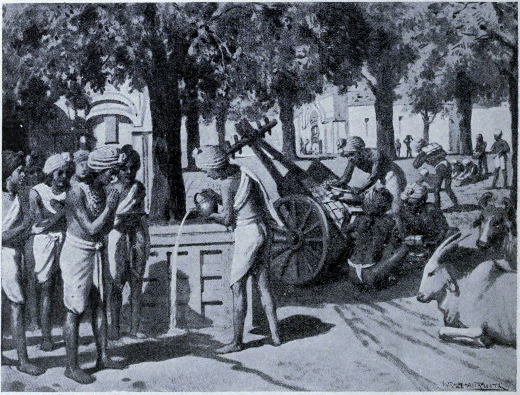 Hutchinson's story of the nations, containing the Egyptians, the Chinese, India, the Babylonian nation, the Hittites, the Assyrians, the Phoenicians and the Carthaginians, the Phrygians, the Lydians, and other nations of Asia Minor.